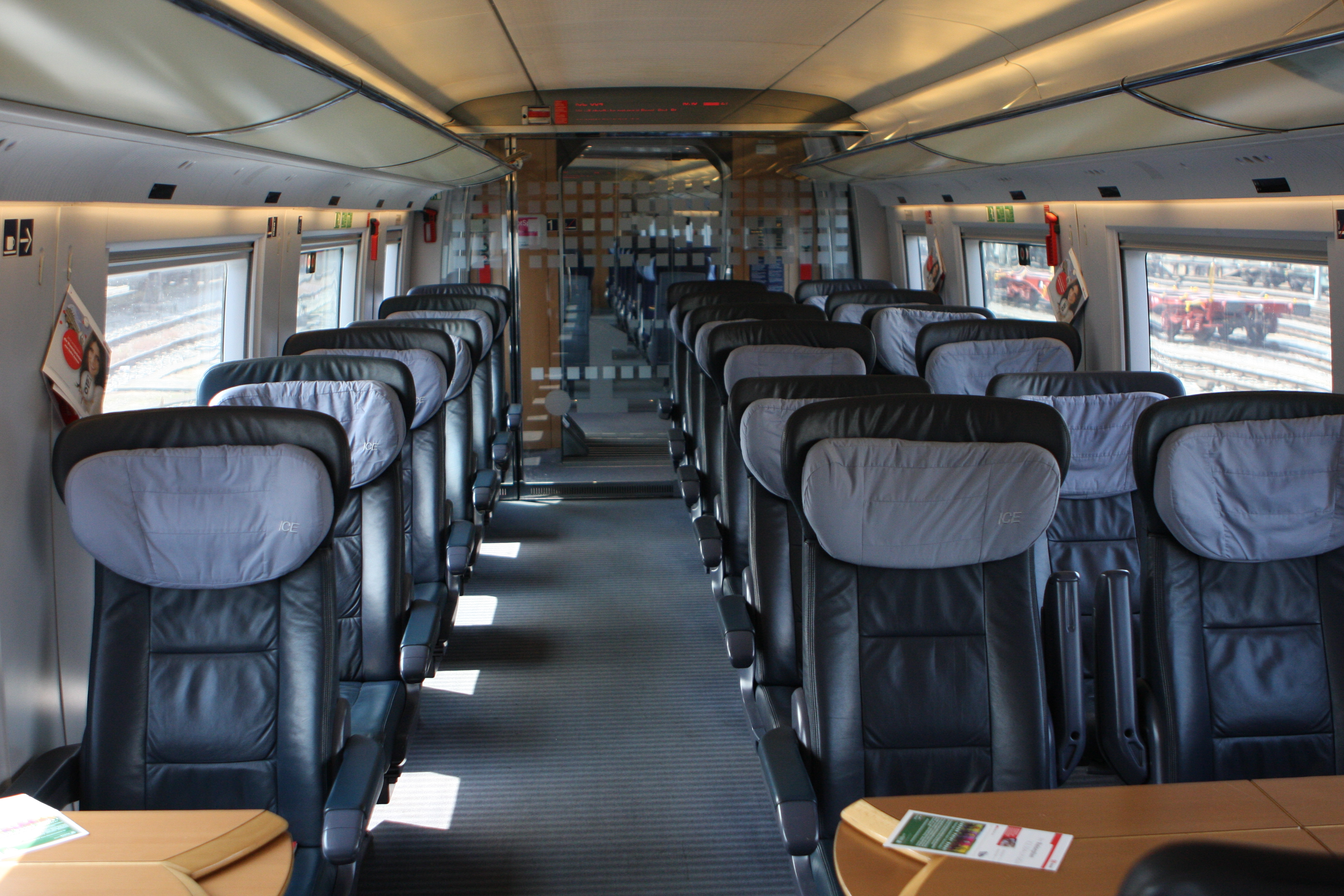 ICE3 1.class